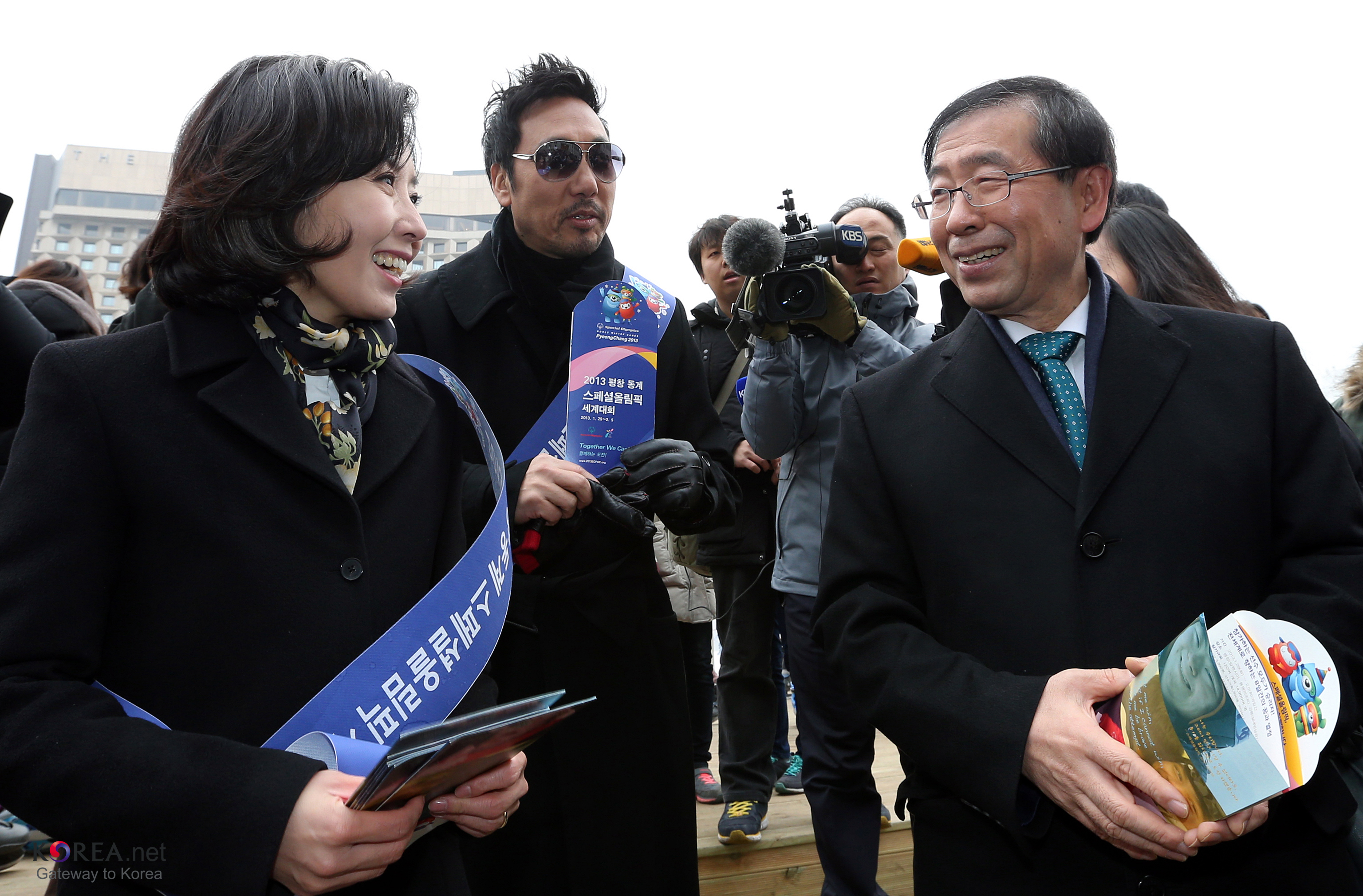 The Special Olympics World Winter Games PyeongChang 2013 'The D-15 PR Campaign' Chairwoman Na Kyung Won(left) and Seoul Mayor Park Won-soon (right) talk with smiles about the upcoming Special Olympics World Winter Games PyeongChang 2013 Seoul Plaza 2013.01.14. Ministry of Culture, Sports and Tourism Korean Culture and Information Service Jeon Han Articles about The Special Olympics World Winter Games PyeongChang 2013 at 2013 평창 동계 스페셜올림픽 세계대회 '평창 스페셜올림픽 D-15 기념 가두 캠페인' 평창 스페셜올림픽 D-15 기념 가두 캠페인이 열린 14일 나경원 조직위원장(왼쪽)과 박원순 서울시장이 스페셜올림픽에 대해 이야기를 나누며 환하게 웃고 있다. 서울시청광장 문화체육관광부 해외문화홍보원 코리아넷 전한